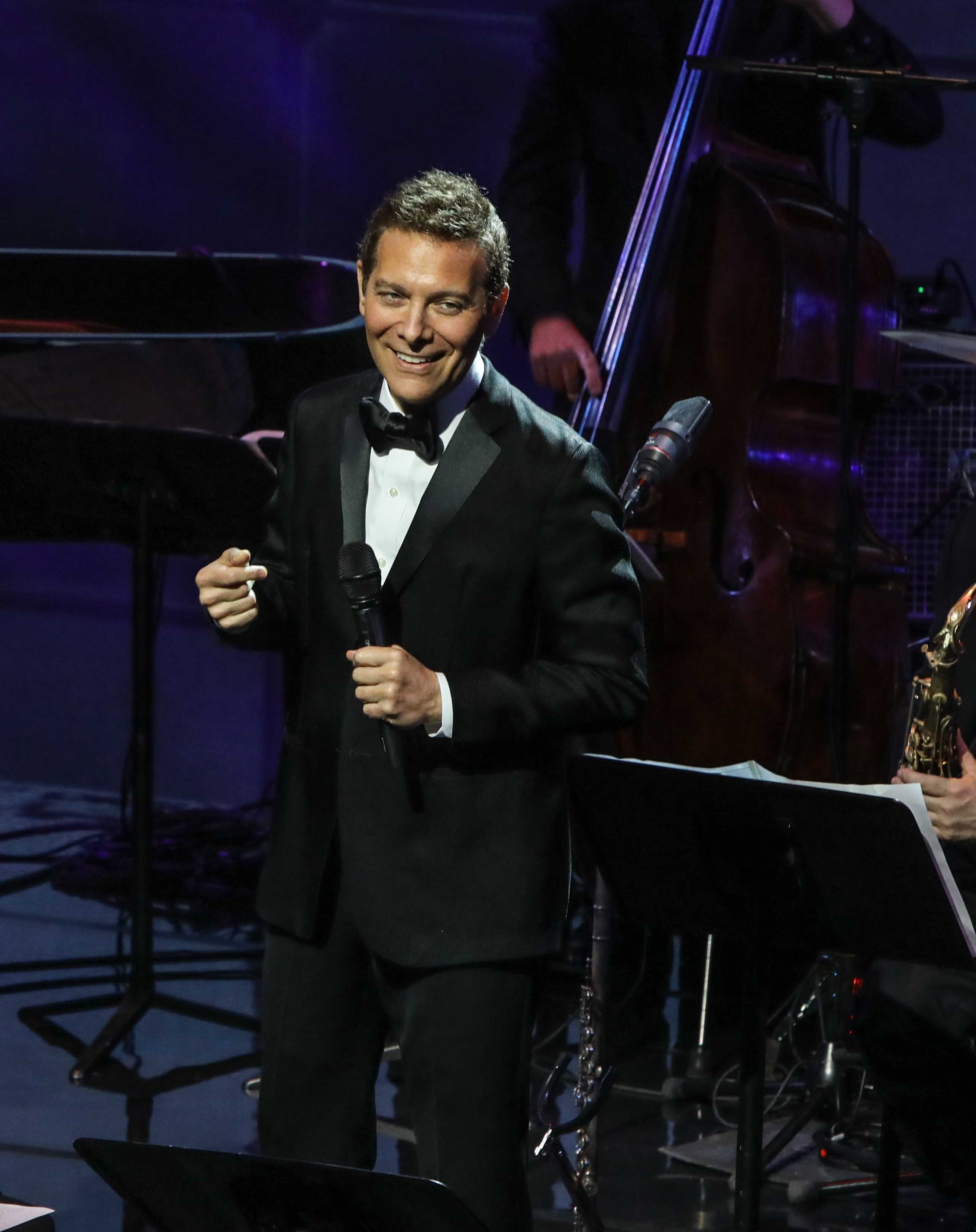 Feinstein performing at his club Feinstein's/54 Below. Summer 2017